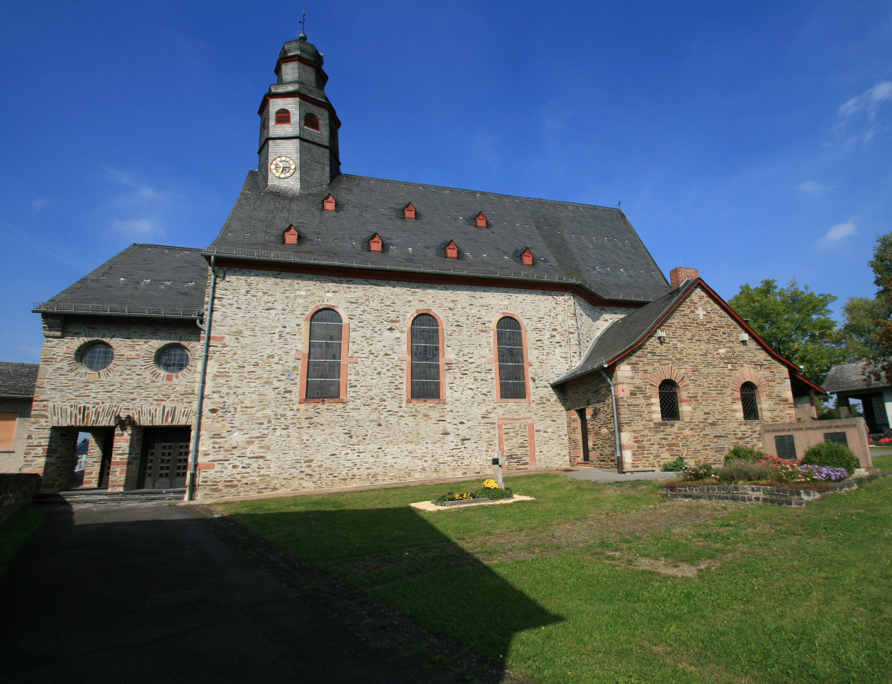 Church of St. Katharina at Ransel, Lorch, Rheingau